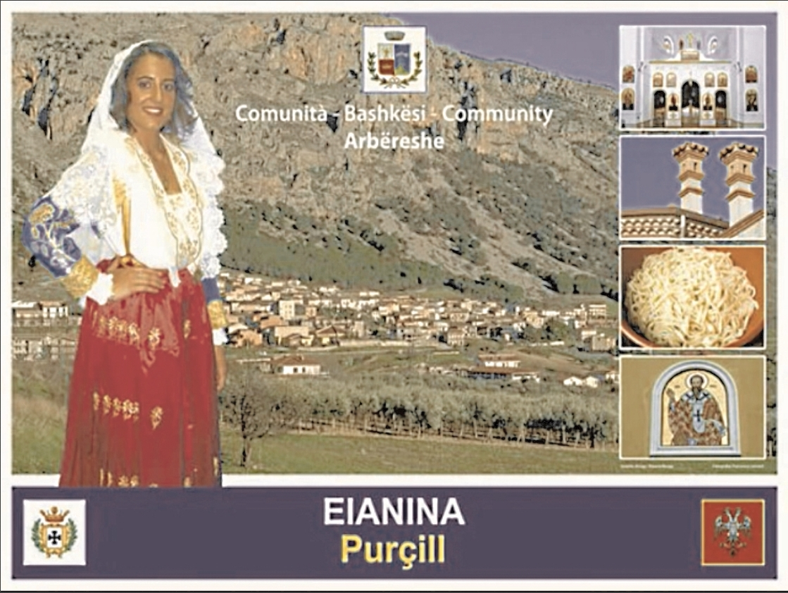 Bilingual welcome street sign from Ejanina, Frascineto, Calabria; Italian and Arbëresh (on the bottom)